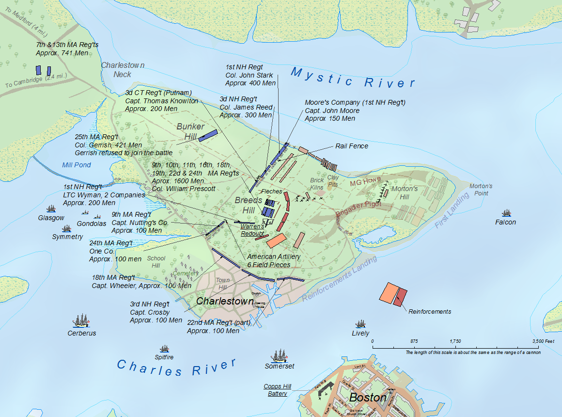 This map is derived from a larger printed map at the Library of Congress (G3764.B6S3 2004 .F7) and was made to illustrate the positions of the American forces at the outset of the Battle of Breeds Hill.